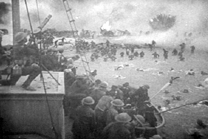 British troops escaping from Dunkirk (France, 1940). Screenshot taken from the 1943 United States Army propaganda film Divide and Conquer (Why We Fight #3) directed by Frank Capra and partially based on, news archives, animations, restaged scenes and captured propaganda material from both sides.